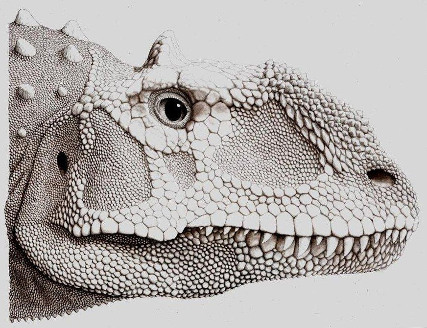 The face of Majungasaurus crenatissimus